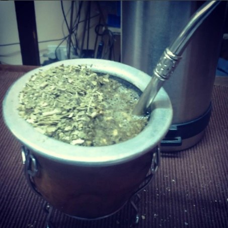 Bitter mate prepared to drink with an inclination in the yerba mate (processed leaves of Ilex PAraguariensis)